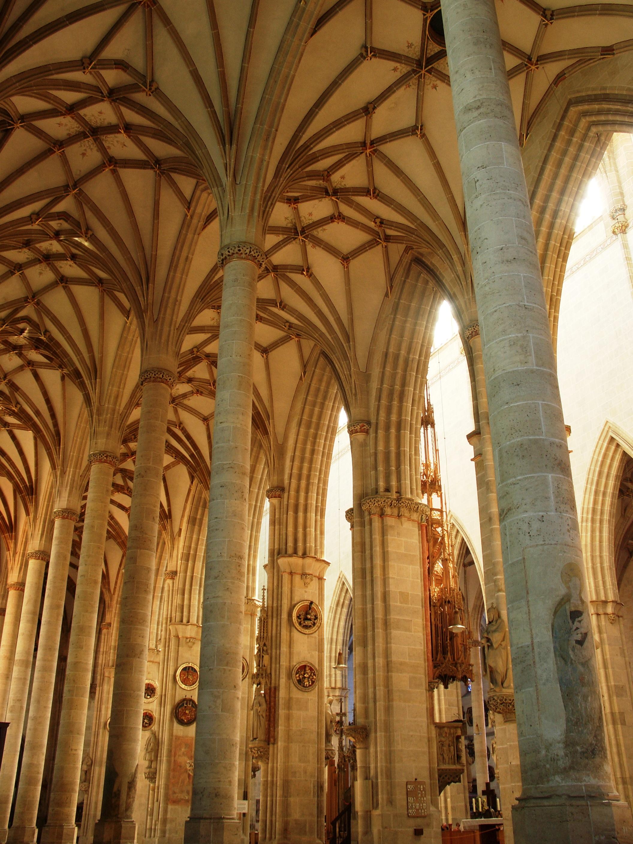 Catedral d'Ulm - Interior